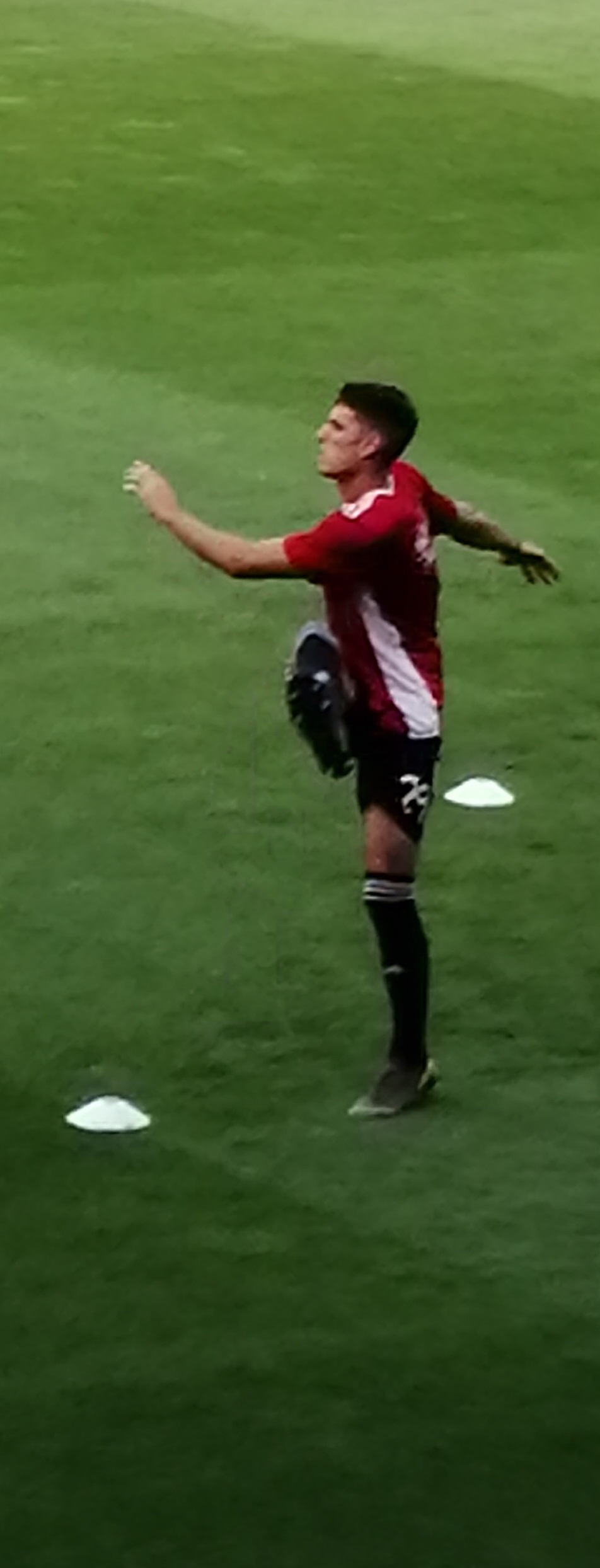 Ivan Mesík